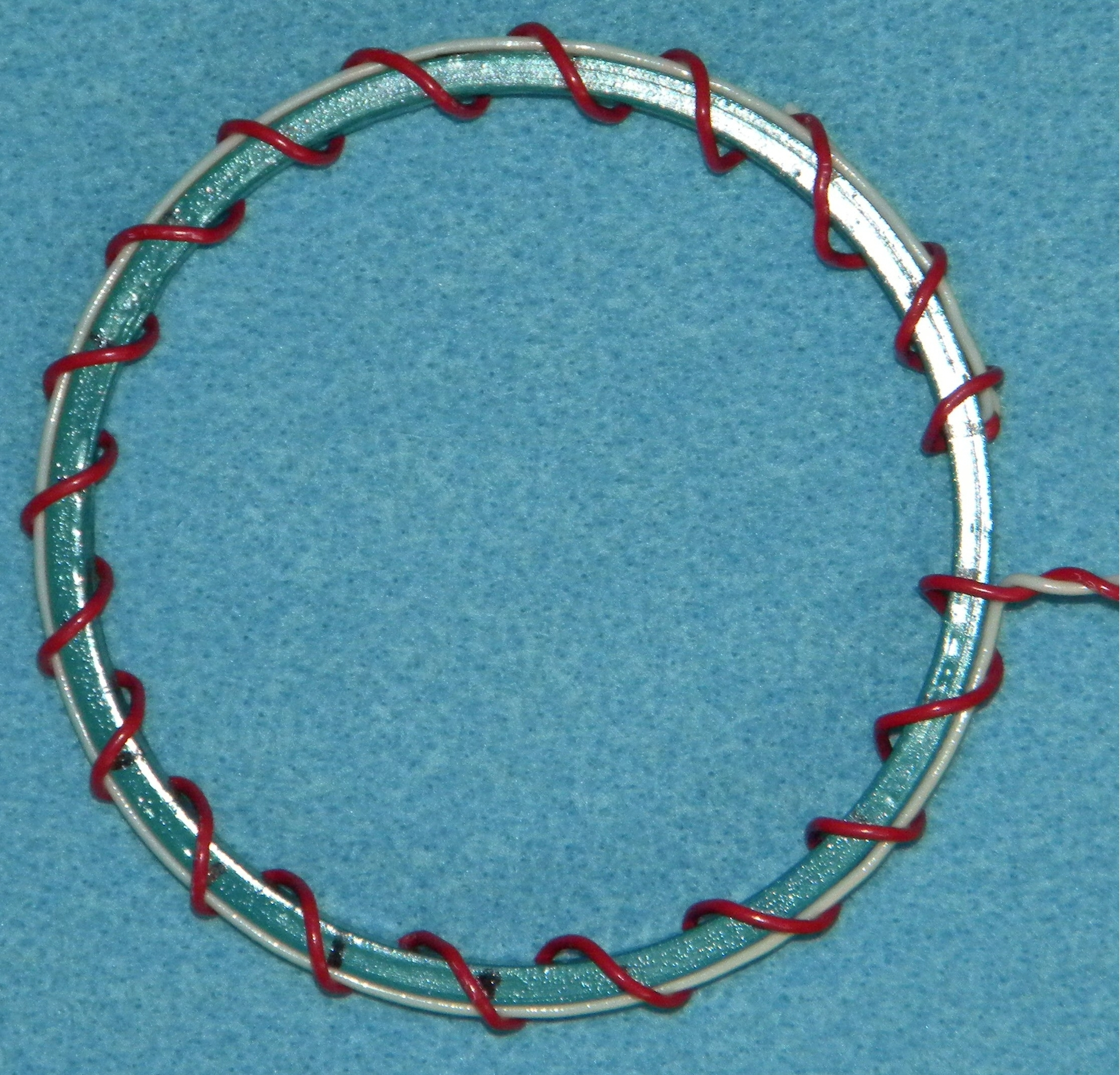 A return wire added to the simple winding cancels the circumferential current. The gap at the end of the winding is exaggerated to make it obvious.